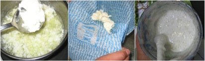 Image of casein glue preparation